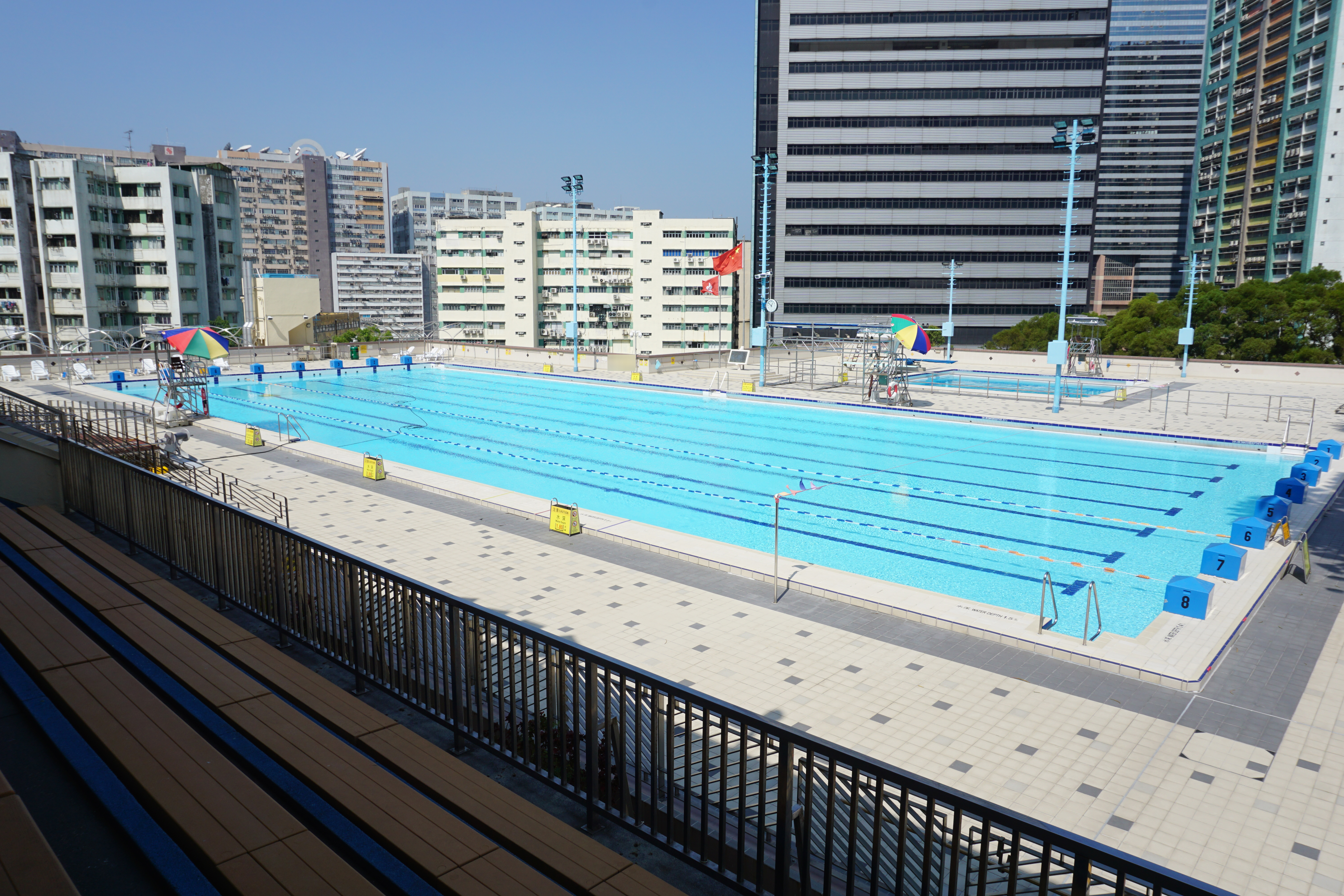 Swimming Pool in Chai Wan, Hong Kong.